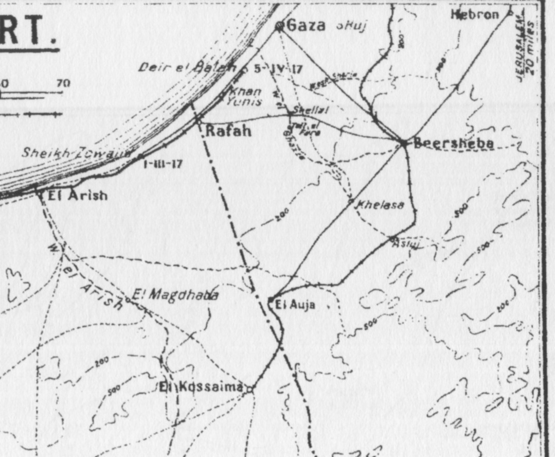 Detail of Falls map of the Eastern Desert Other information Government publication - crown copyright